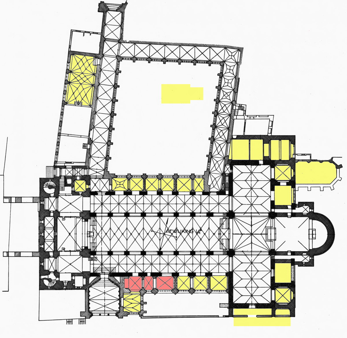 Locator map of chapels of the Basilica of Saint Servatius in Maastricht, the Netherlands. This map by an unknown author was first published in 1926 in Van Nispen tot Sevenaers De monumenten in de gemeente Maastricht, Deel 1, and donated to Wiki Commons by Rijksdienst voor het Cultureel Erfgoed on 7 January 2013. All colouring and other edits are by Kleon3. In yellow all 17 chapels of Sint-Servaasbasiliek in past and present. In red the chapel of Our Lady of Sorrows, the western most of the south aisle chapels.